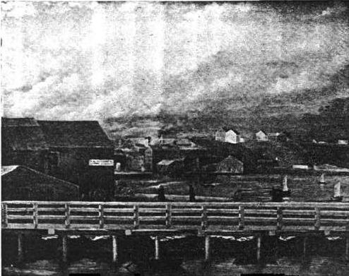 This is my copy of a photo from "State of Rhode Island and Providence Plantations at the End of the Century" Volume 3, By Edward Field (Mason Publishing Co., Boston: 1902) ([1] (accessed November 14, 2008 on google book search).